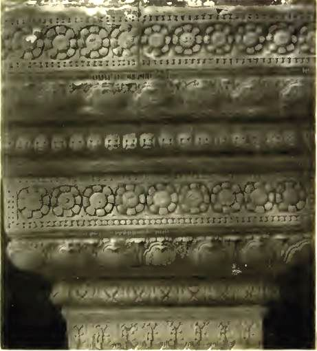 Angkor Wat column capital